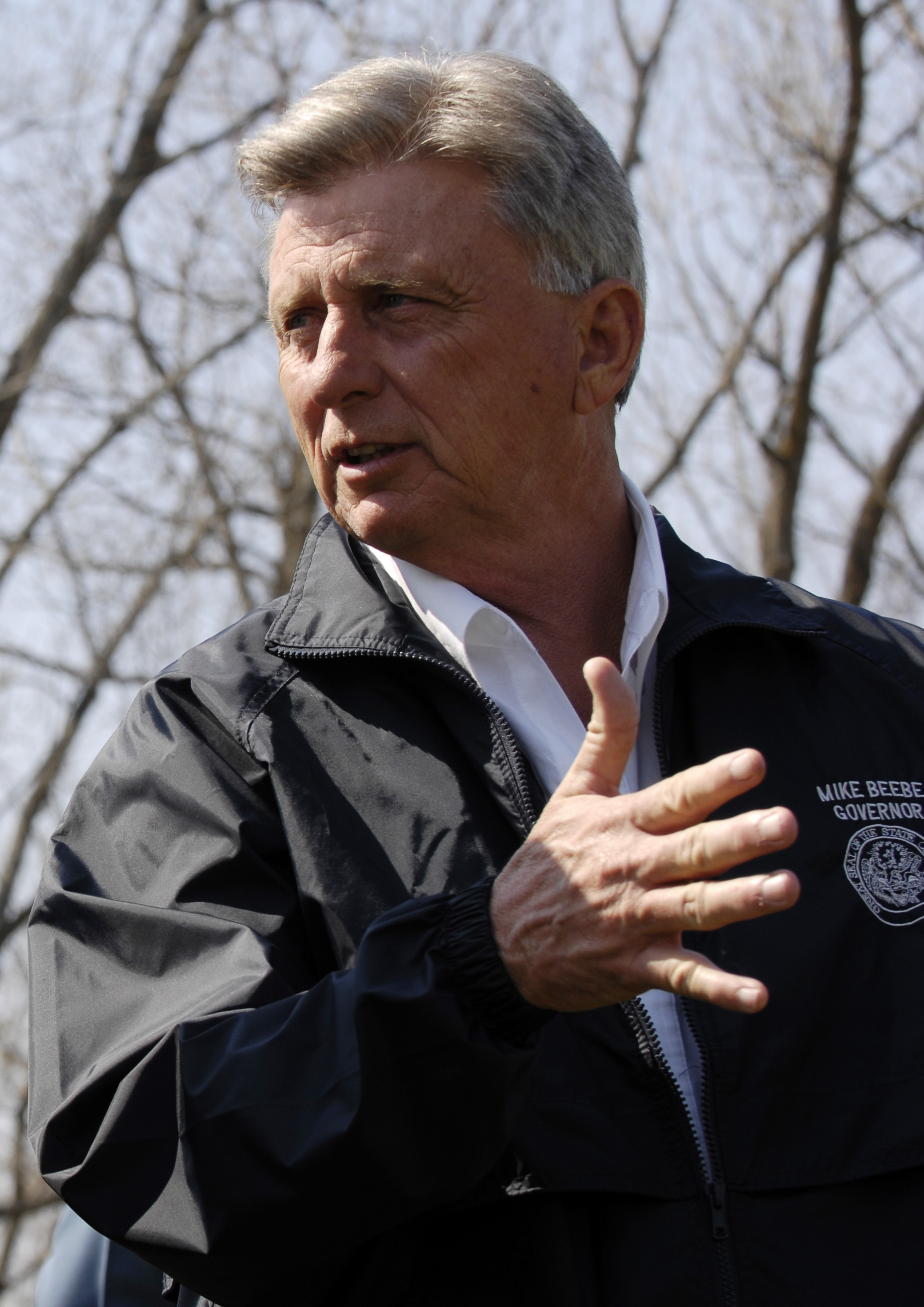 Des Arc, AR, March 25, 2008 -- TW Vincent, Secretary of the Levee Board, right, briefs Arkansas Governor Mike Beebe, left, along with other elected officials, about the conditions and operations of sandbagging in a local area called Sandhill. Jocelyn Augustino/FEMA